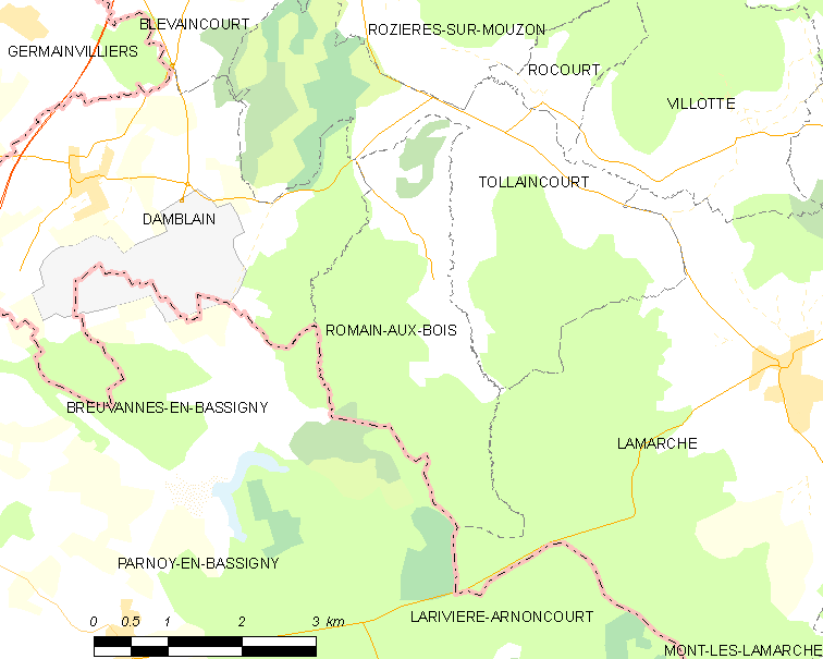 Map of French municipality Romain-aux-Bois